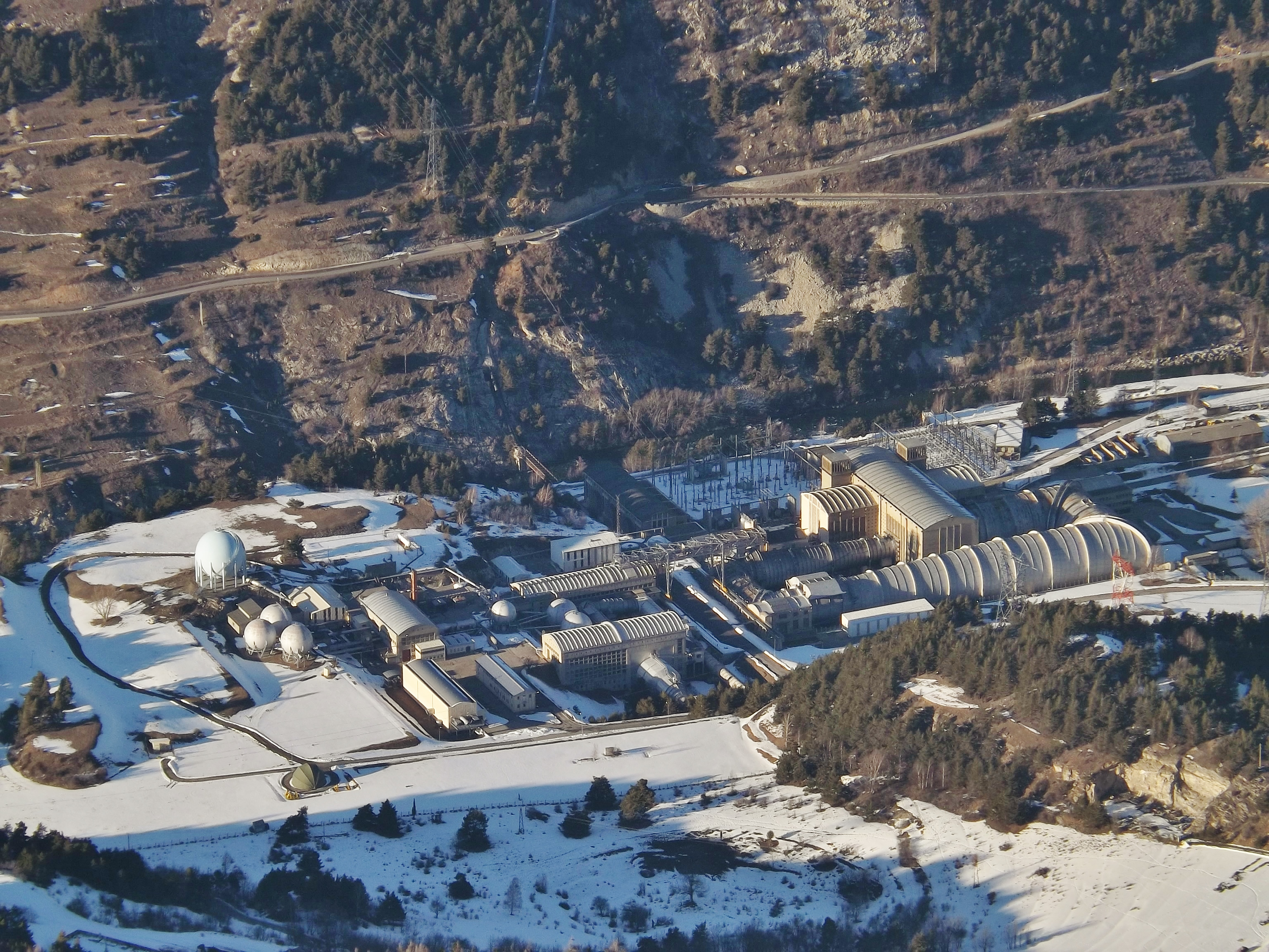 Panoramic sight, from the heights of La Norma ski resort, of the ONERA wind-tunnel factory, in the Maurienne valley, Savoie, France.